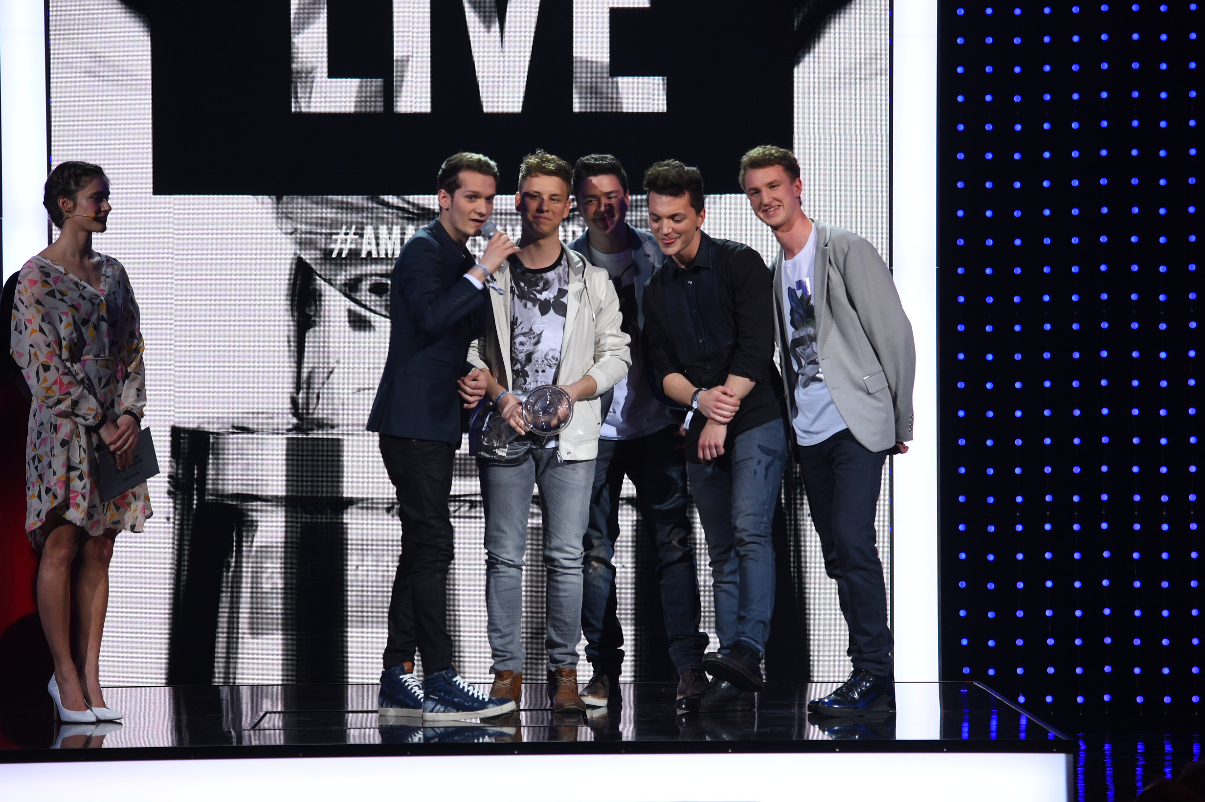 Amadeus Music Awards 2015,Volkstheater, Wien, 29.3.2015, TAGTRAEUMER